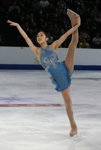 Kim Yu-Na performs a spiral during her exhibition at 2008 Skate America.